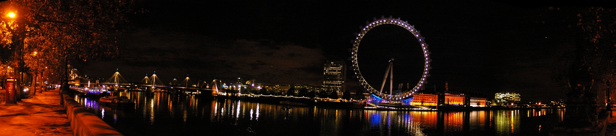 River Thamese panoramaview